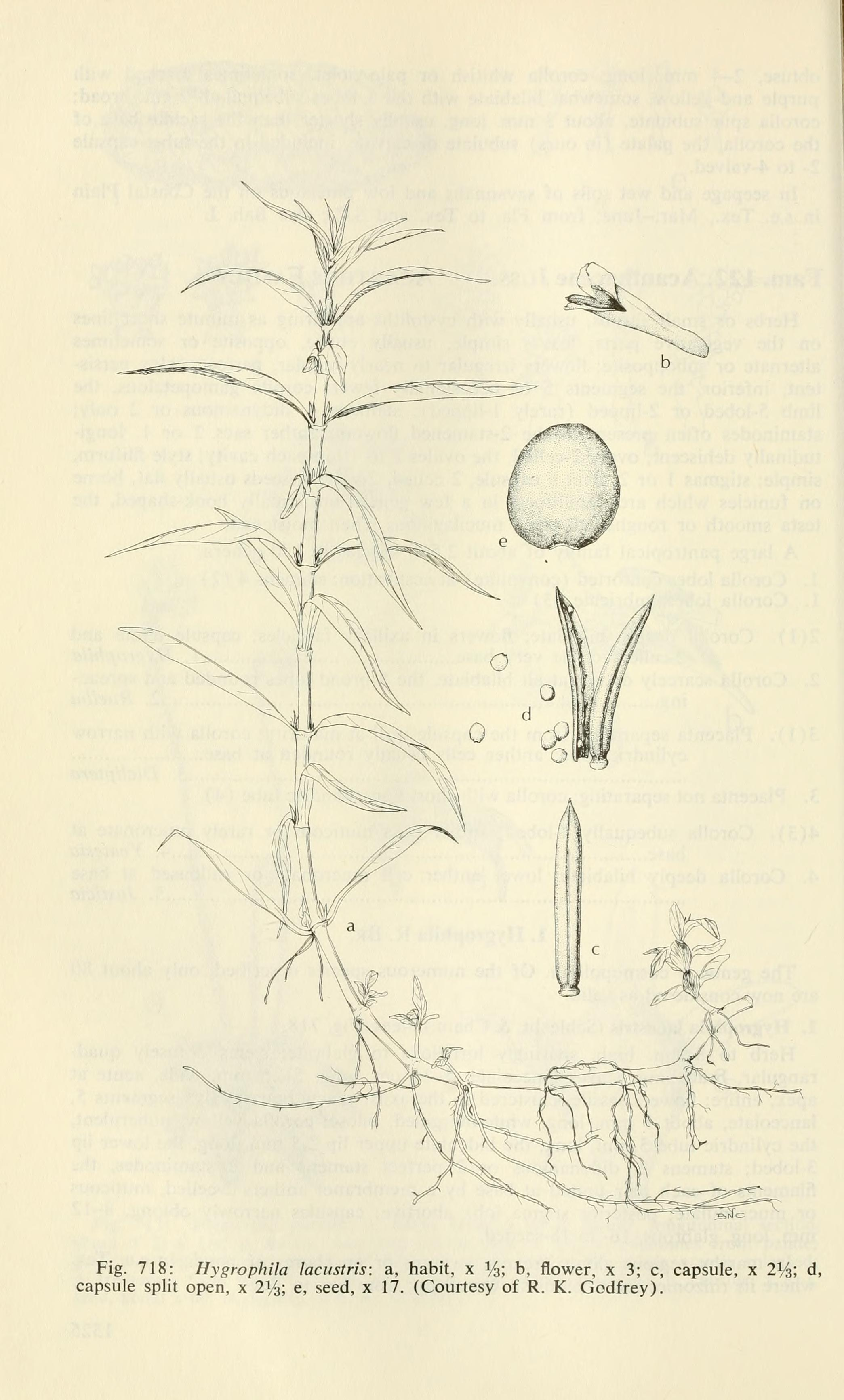 Title: Aquatic and wetland plants of southwestern United States Year: 1972 (1970s) Authors: Correll, Donovan Stewart, 1908-; Correll, Helen B Subjects: Aquatic plants -- Southwestern States; Wetland plants -- Southwestern States Publisher: [Washington Environmental Protection Agency; [For sale by the Supt. of Docs. , U. S. Govt. Print. Off. Text Appearing Before Image: ' Text Appearing After Image: Fig. 718: Hygrophila lacustris: a, habit, x %; b, flower, x 3; c, capsule, x 21,^; d, capsule split open, x l^/z', e, seed, x 17. (Courtesy of R. K. Godfrey).